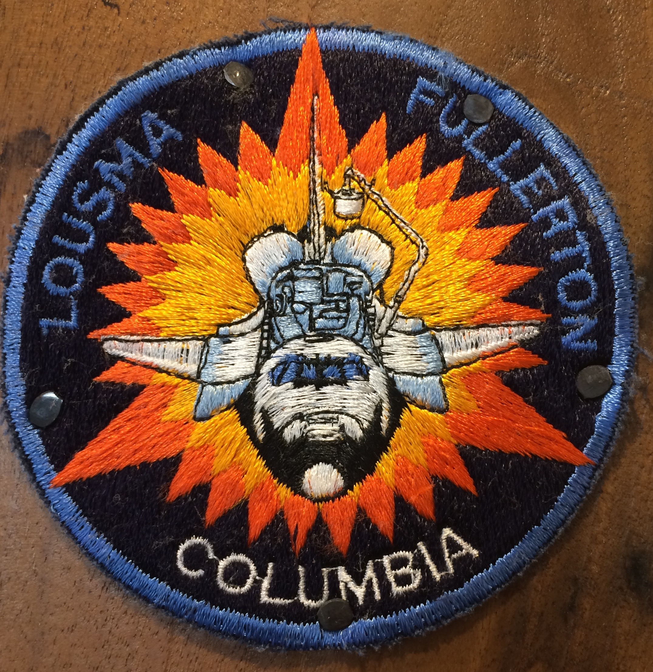 Picture of the mission patch for STS-3. This is the physical patch, not a drawing.